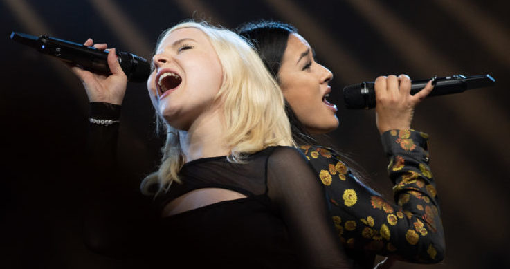 At the 2019 Eurovision Song Contest Grand Final Dress Rehearsal